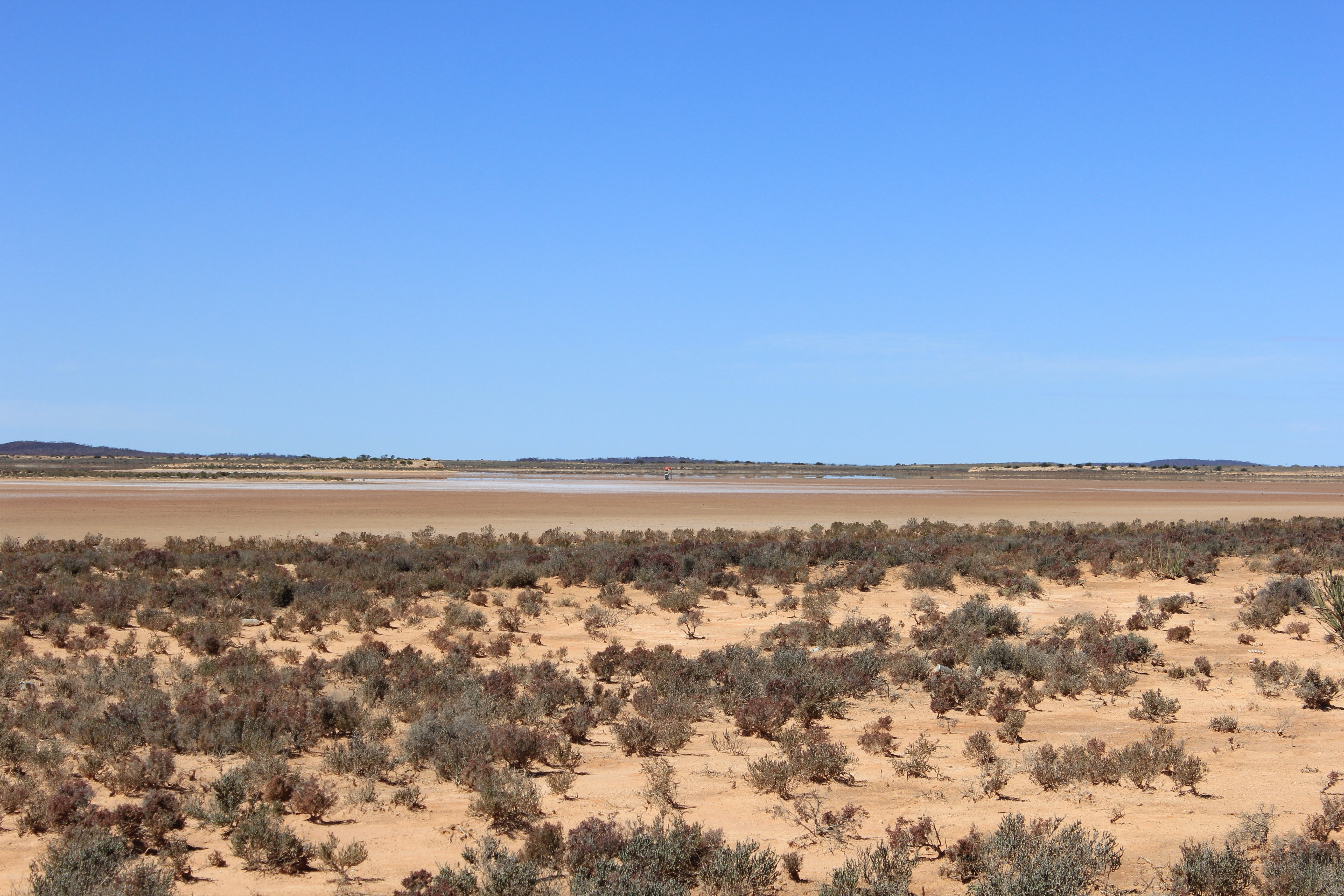 Lake Austin in April 2014